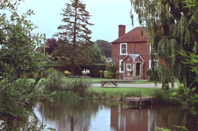 Pound Farm, Martyr’s Green The house seen from the Old Lane.